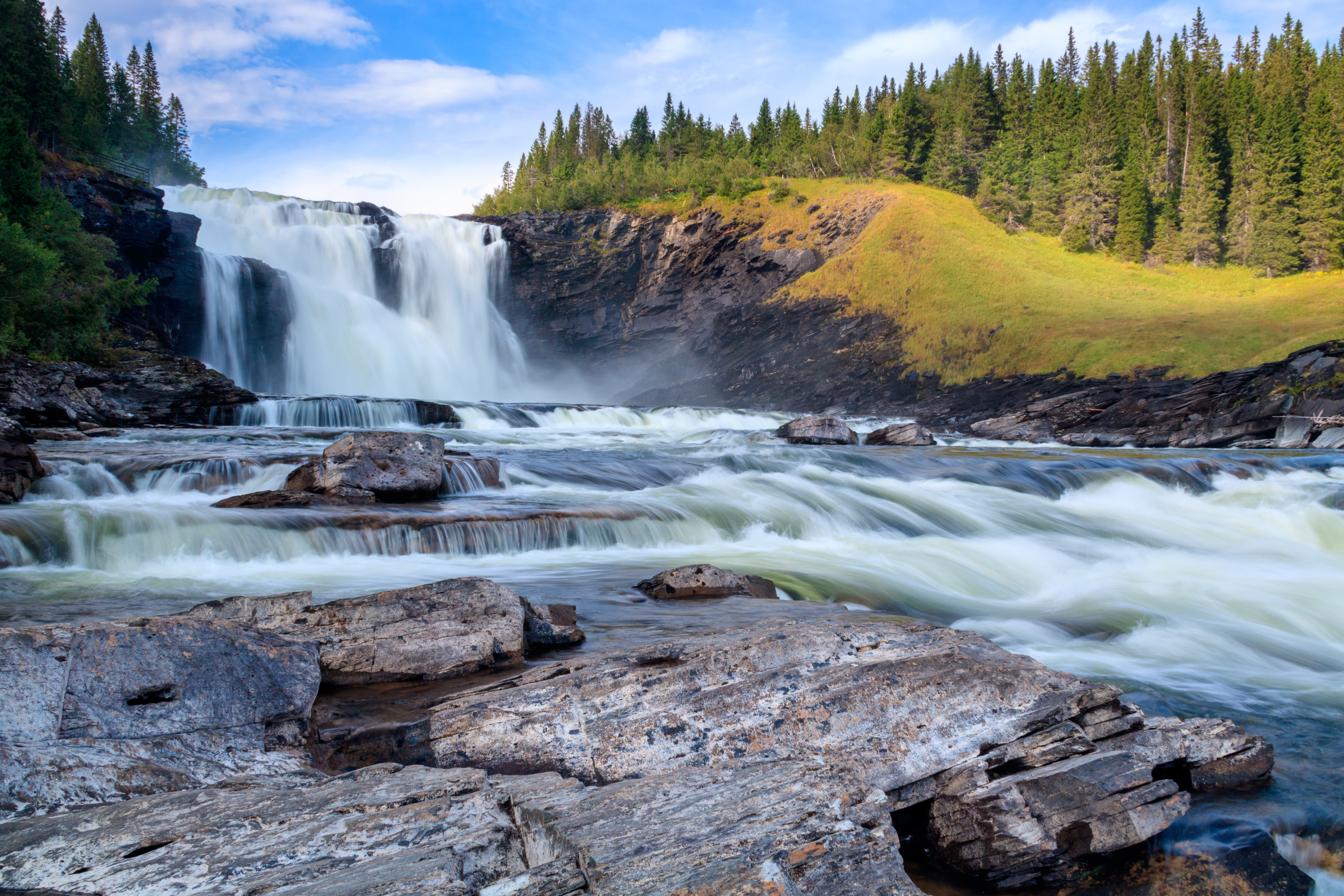 Tännforsen is one of the largest waterfalls in Sweden